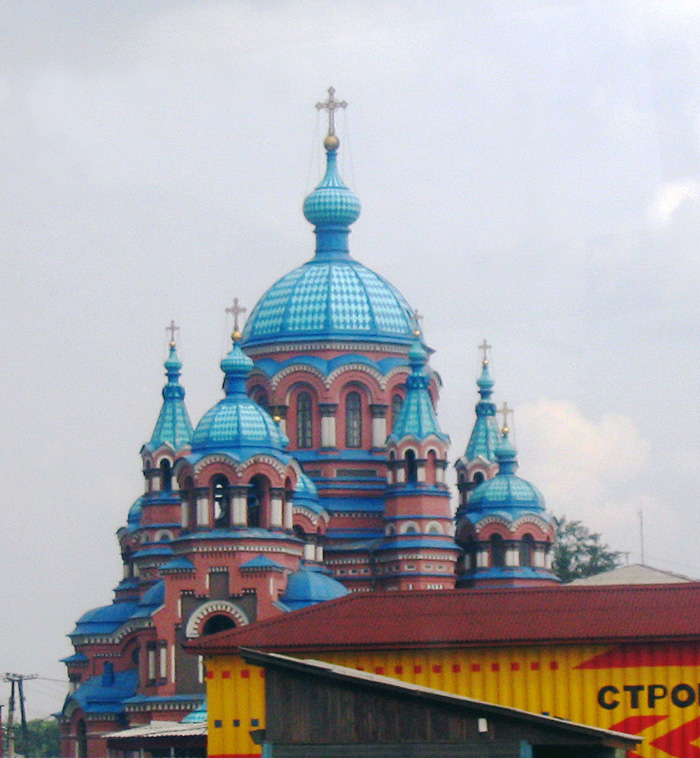 Kazansky Church in Irkutsk, Russia. Not in the best of surroundings, but nice to look at.